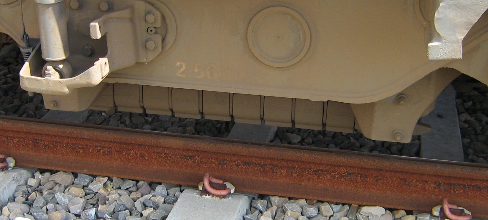 View of an electromagnetic brake on an AM96 EMU of the SNCB/NMBS.